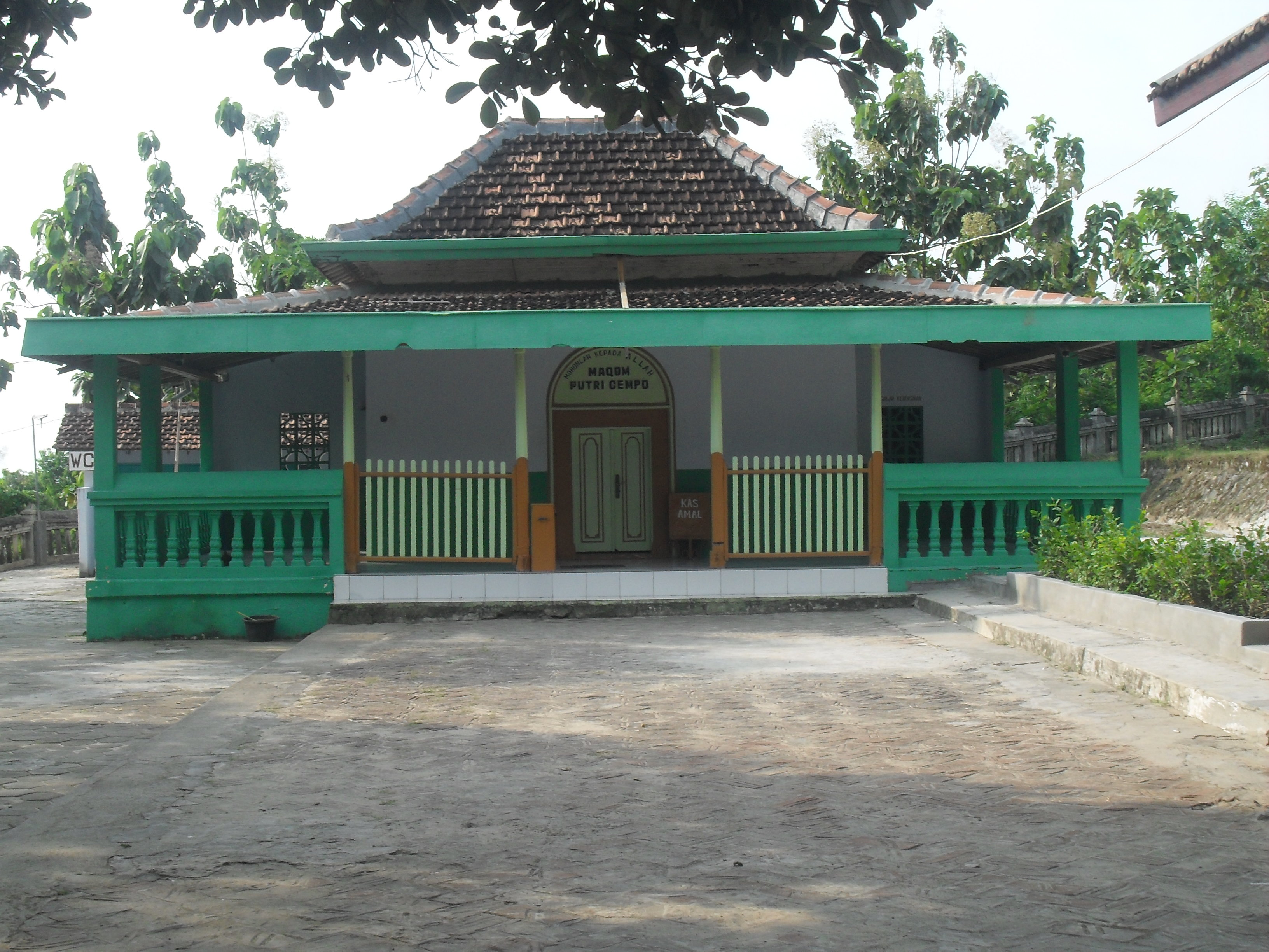 photo makam putri cempa